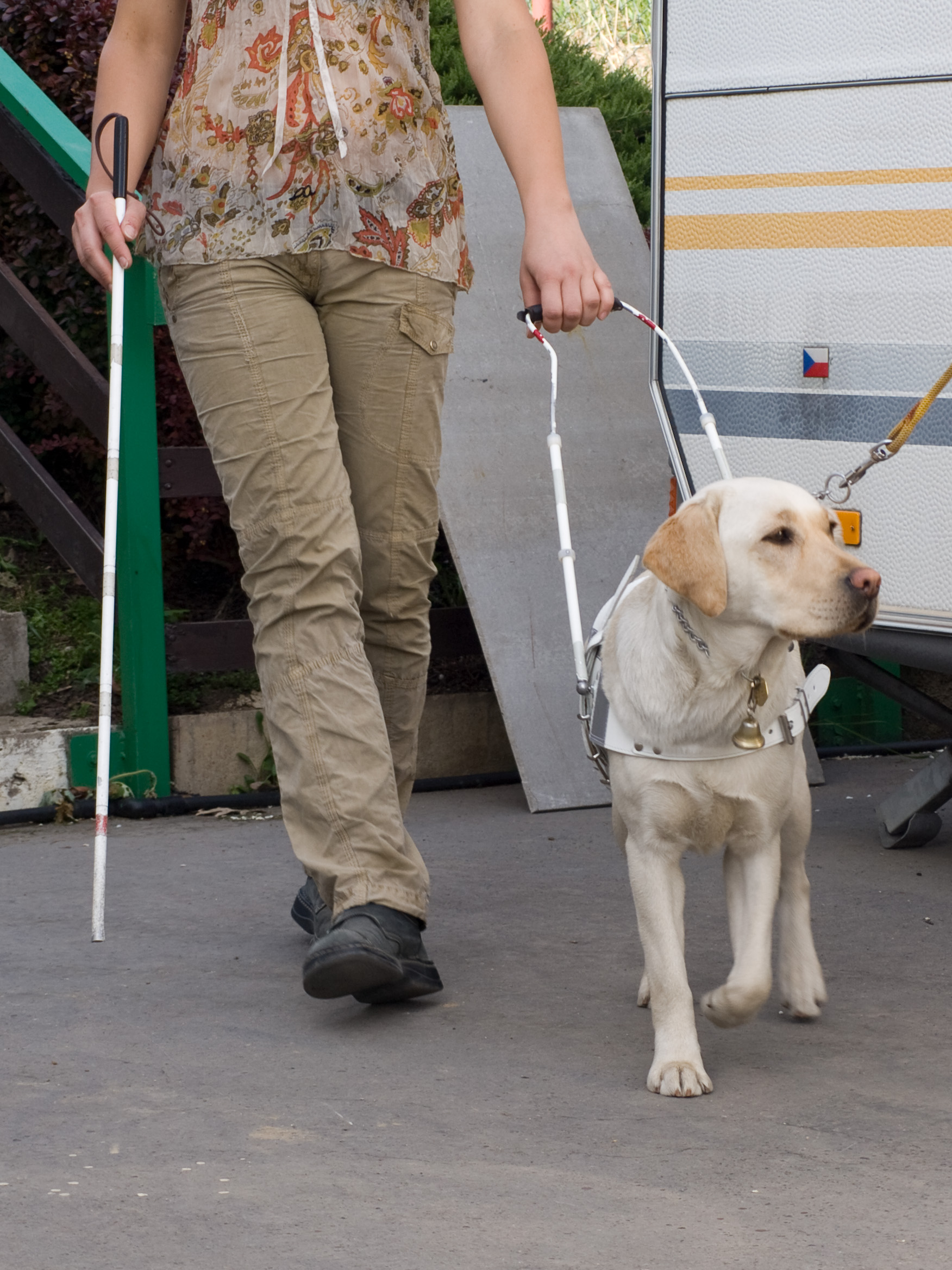 Dog guiding blind woman, Czech guide dog school Klikatá, Prague 5